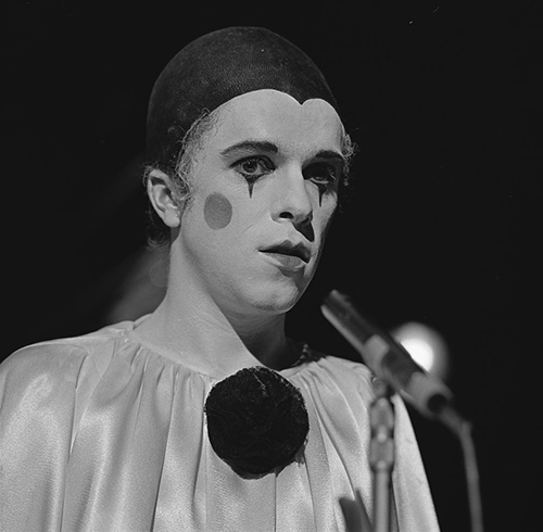 Leo Sayer as Pierrot, perfoming his song The Show Must Go On in AVRO's TopPop (Dutch television show) in 1974